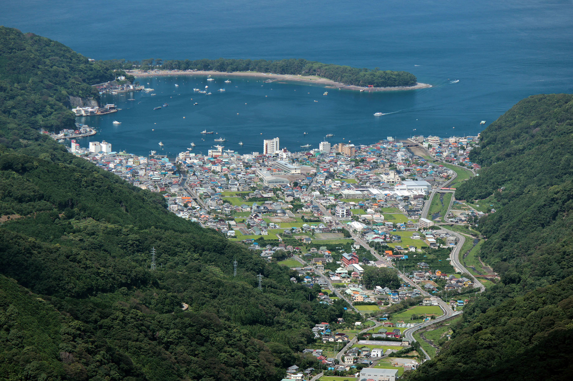 A view of the Heda area as seen from the east in Numazu, Shizuoka Prefecture, Japan. We can see the Cape Mihama and Port of Heda.